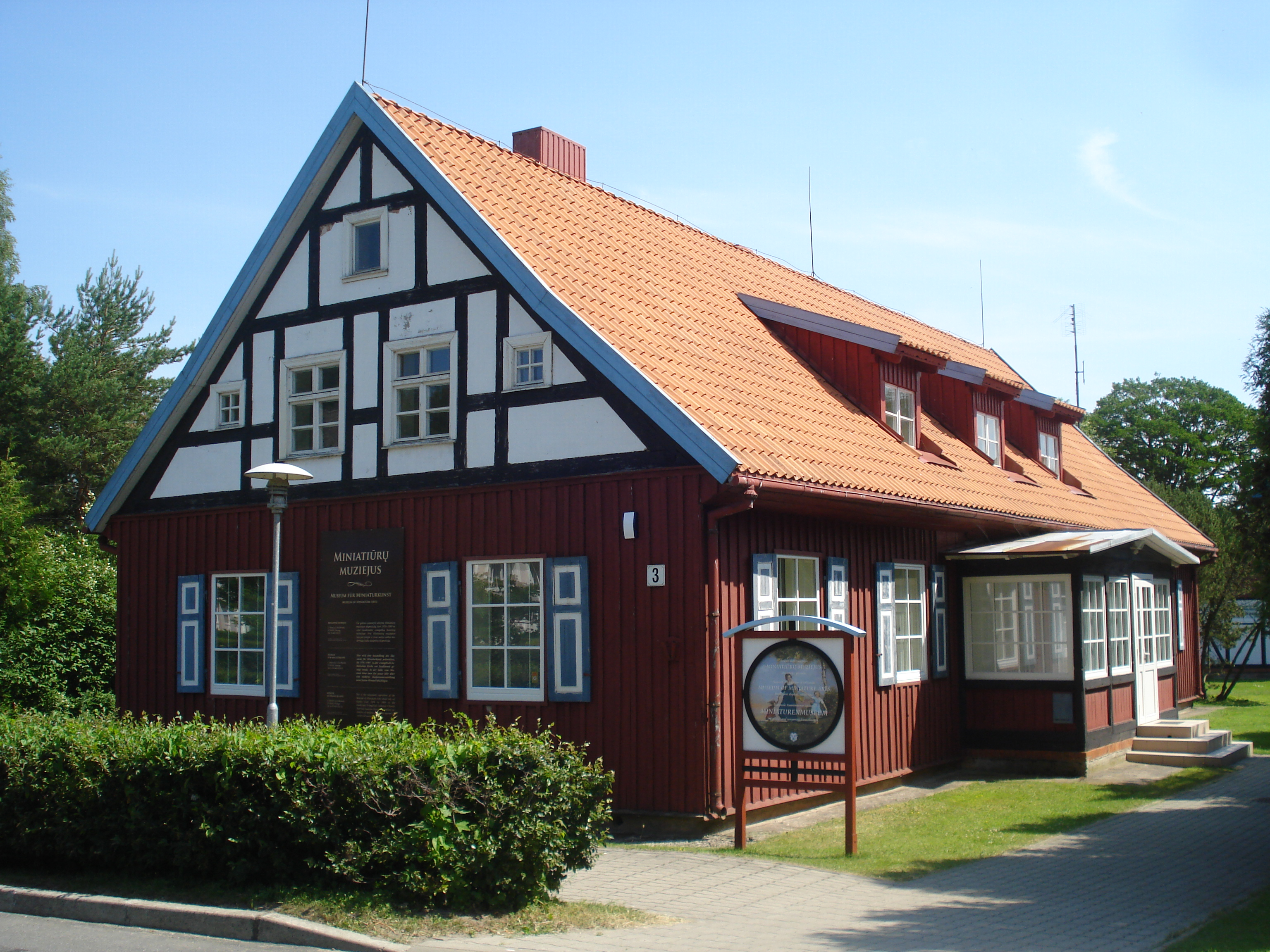 Museum of Miniature Arts (Branch of Lithuanian Art Museum) in Juodkrantė (L. Rėzos street 3), Lithuania